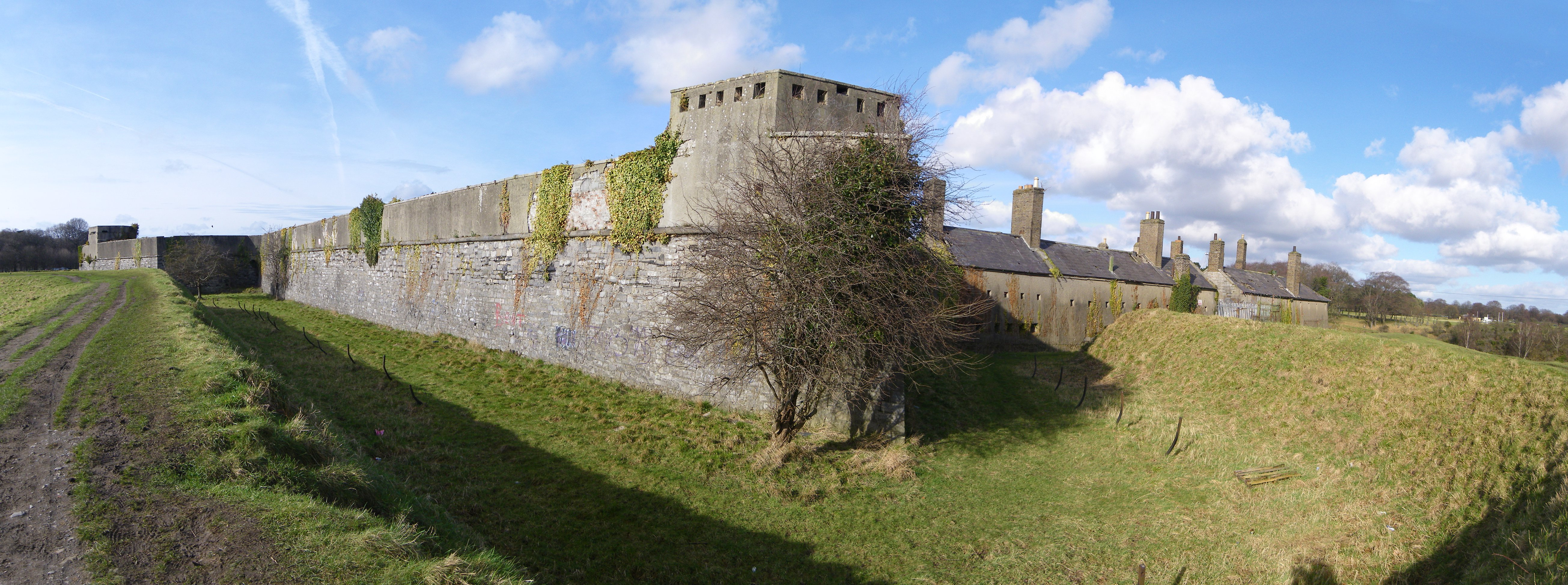 South east corner of the Magazine fort in Phoenix Park, Dublin